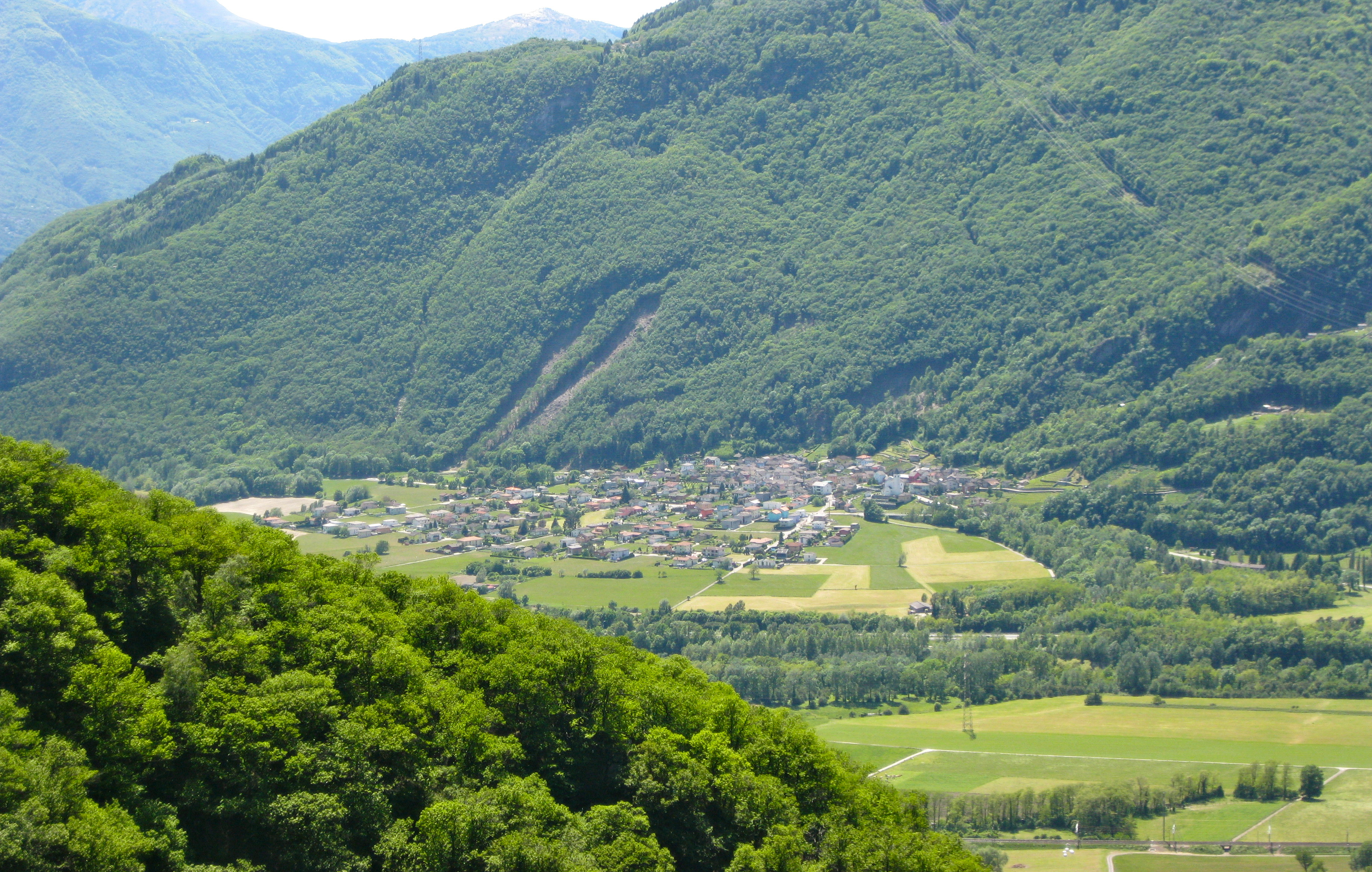 Gnosca